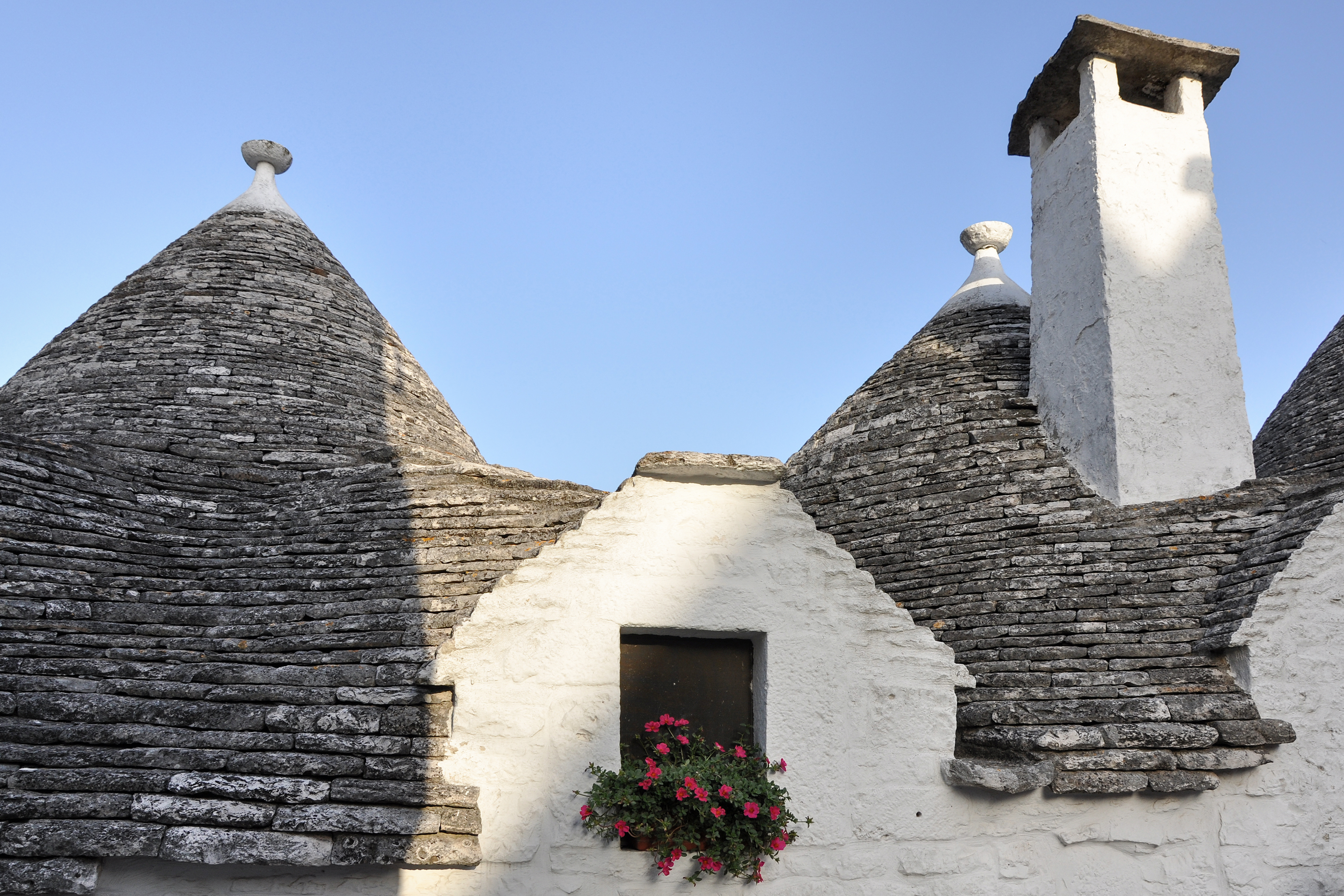 Trulli - Alberobello, Bari, Italy